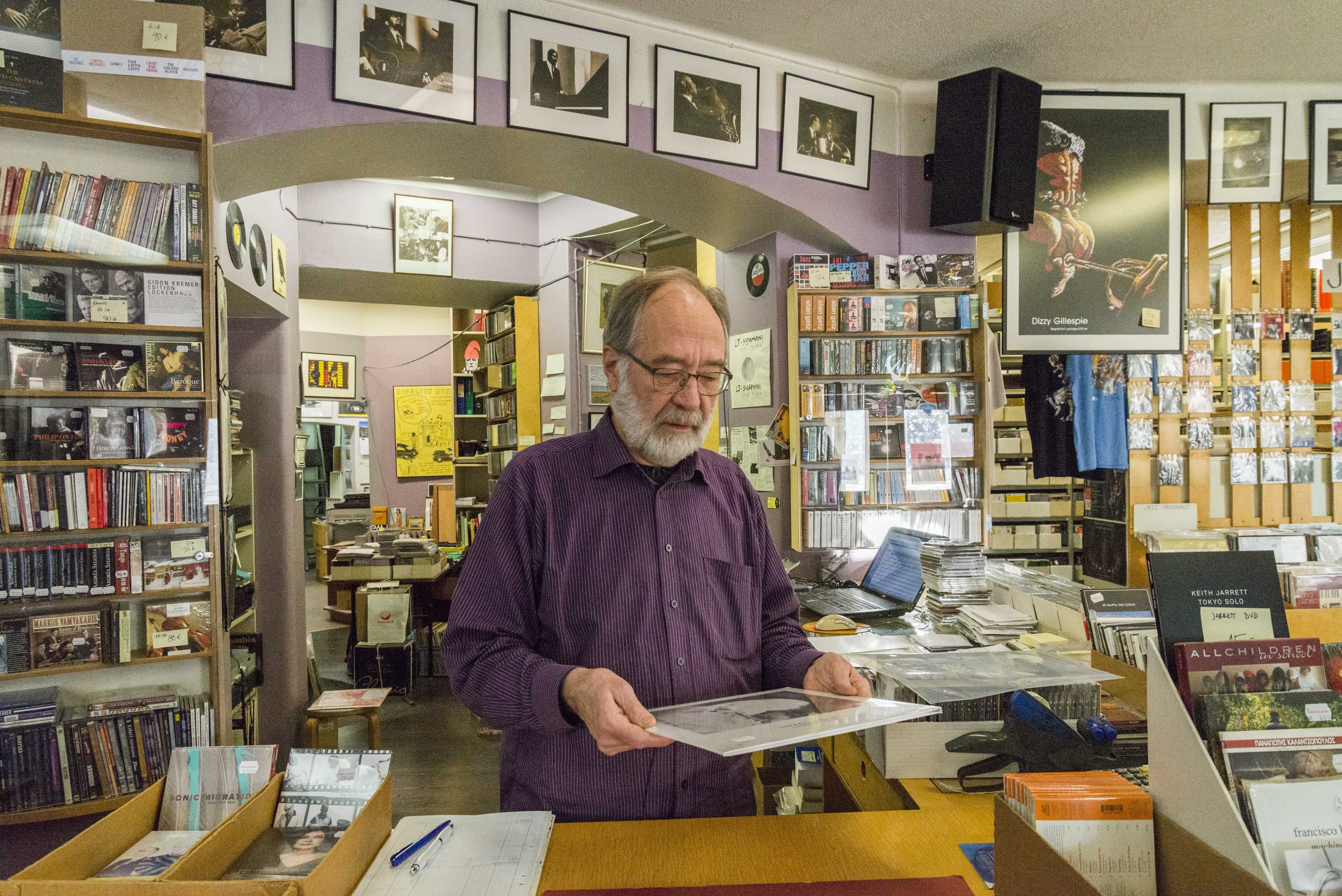 Photograph of the Finnish record dealer Ilkka “Emu” Lehtinen (1947–2017) at his shop, Digelius Music, in Helsinki.